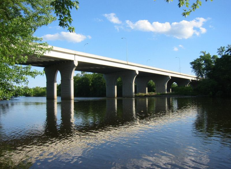 The Bridge of Hope spanning the Mississippi River on Minnesota State Highway 15 north of St. Cloud.